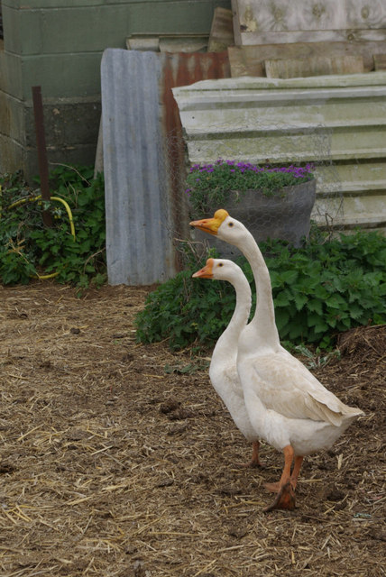 Geese near Chipping Warden These two geese were guarding a rather ramshackle property on Culworth Road, just outside Chipping Warden. They were honking enthusiastically but did not appear to be particularly aggressive.